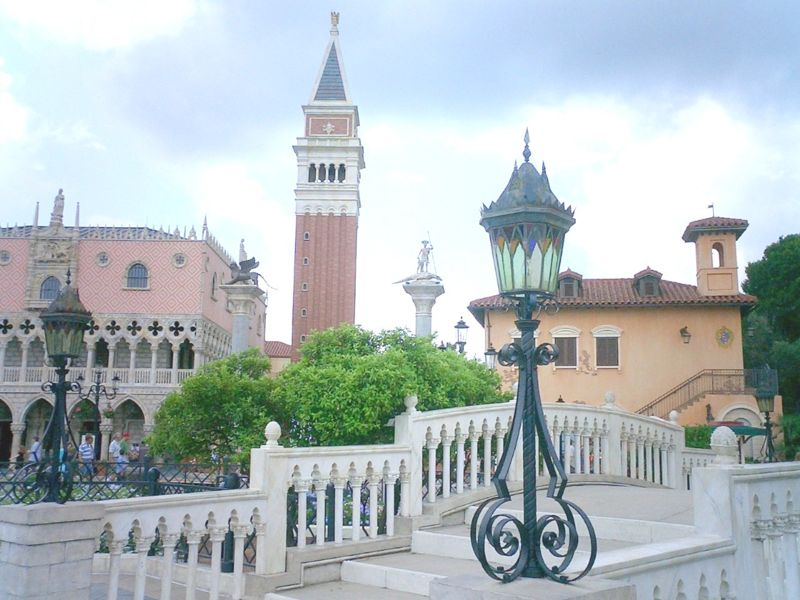 Italy pavillon at EPCOT Center